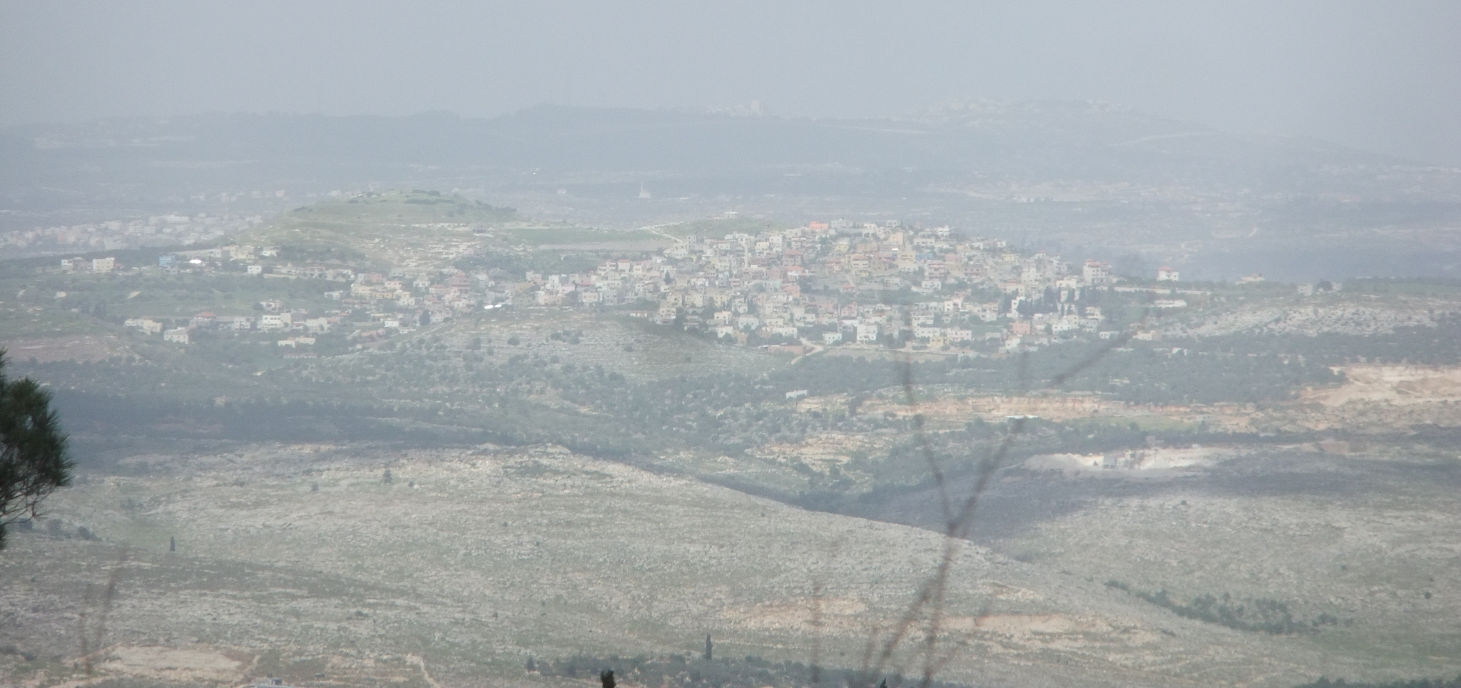 Fahma viewed from Chomesh in the south